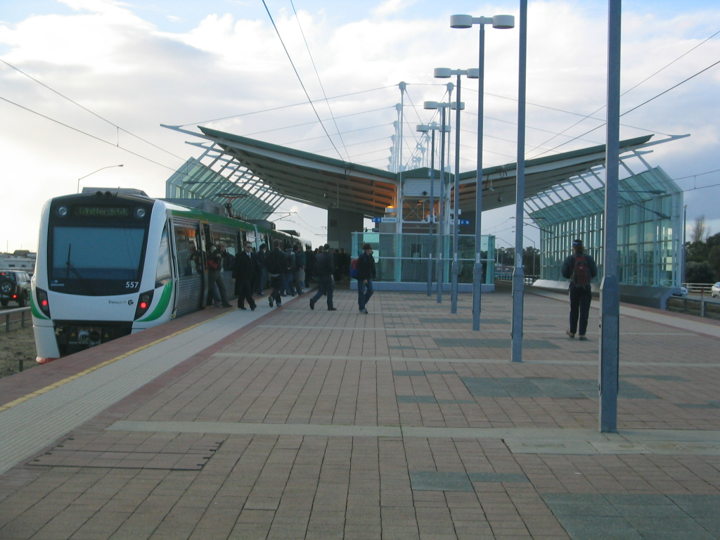 Transperth Glendalough Train Station